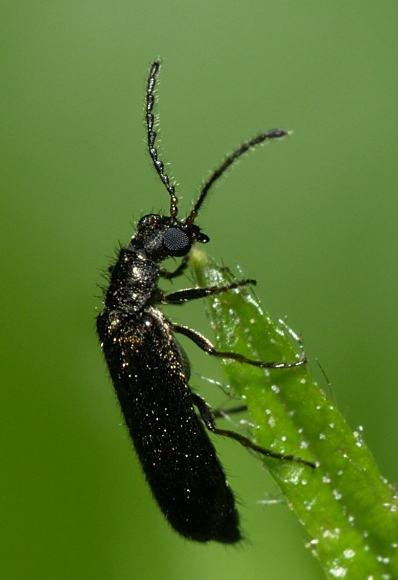 Dasytes plumbeus from Koenigsforst near Cologne, Germany.